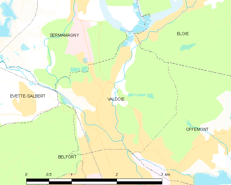 Map of French municipality Valdoie